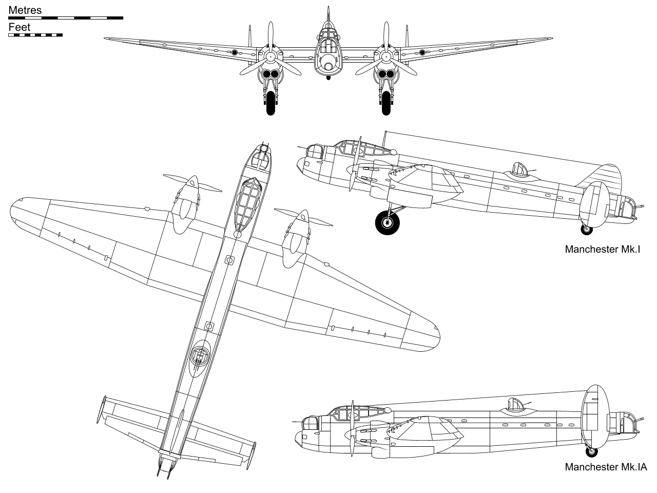 orthographic projection of Avro Manchester